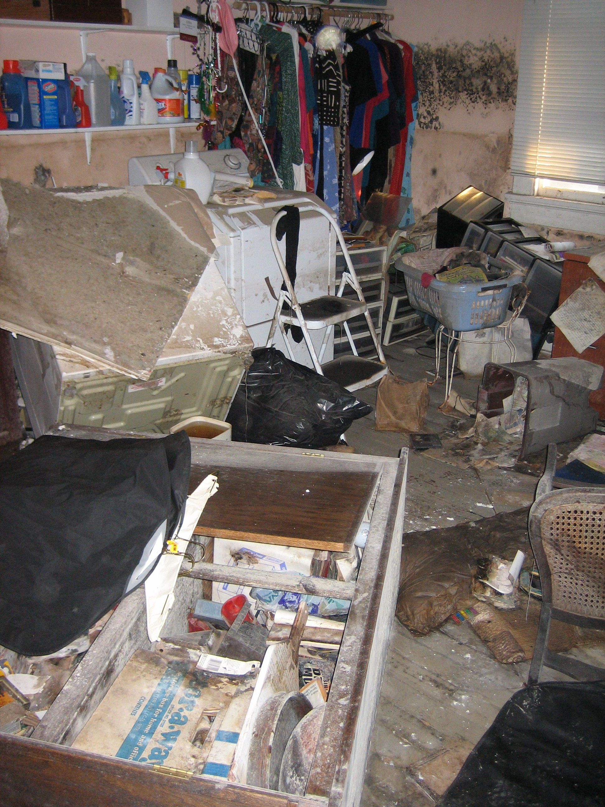 New Orleans after Hurricane Katrina: Interior of part of damaged home in formerly flooded residential area of Navarre neighborhood.